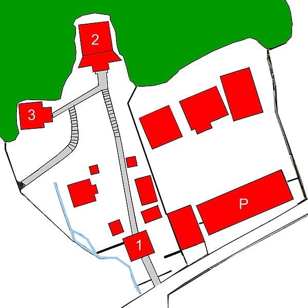 Layout of Byôdôji (Anan) Temple, Japan